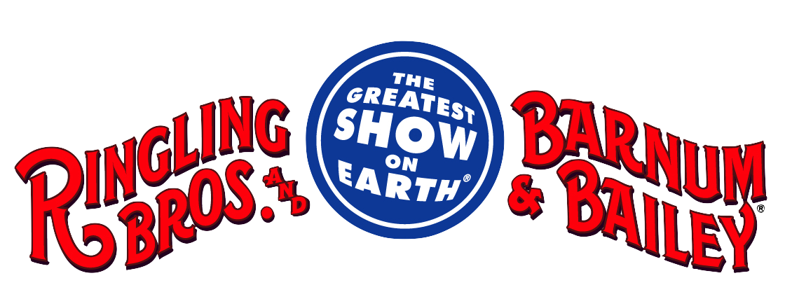 The logo of the Ringling Bros. before they shut down